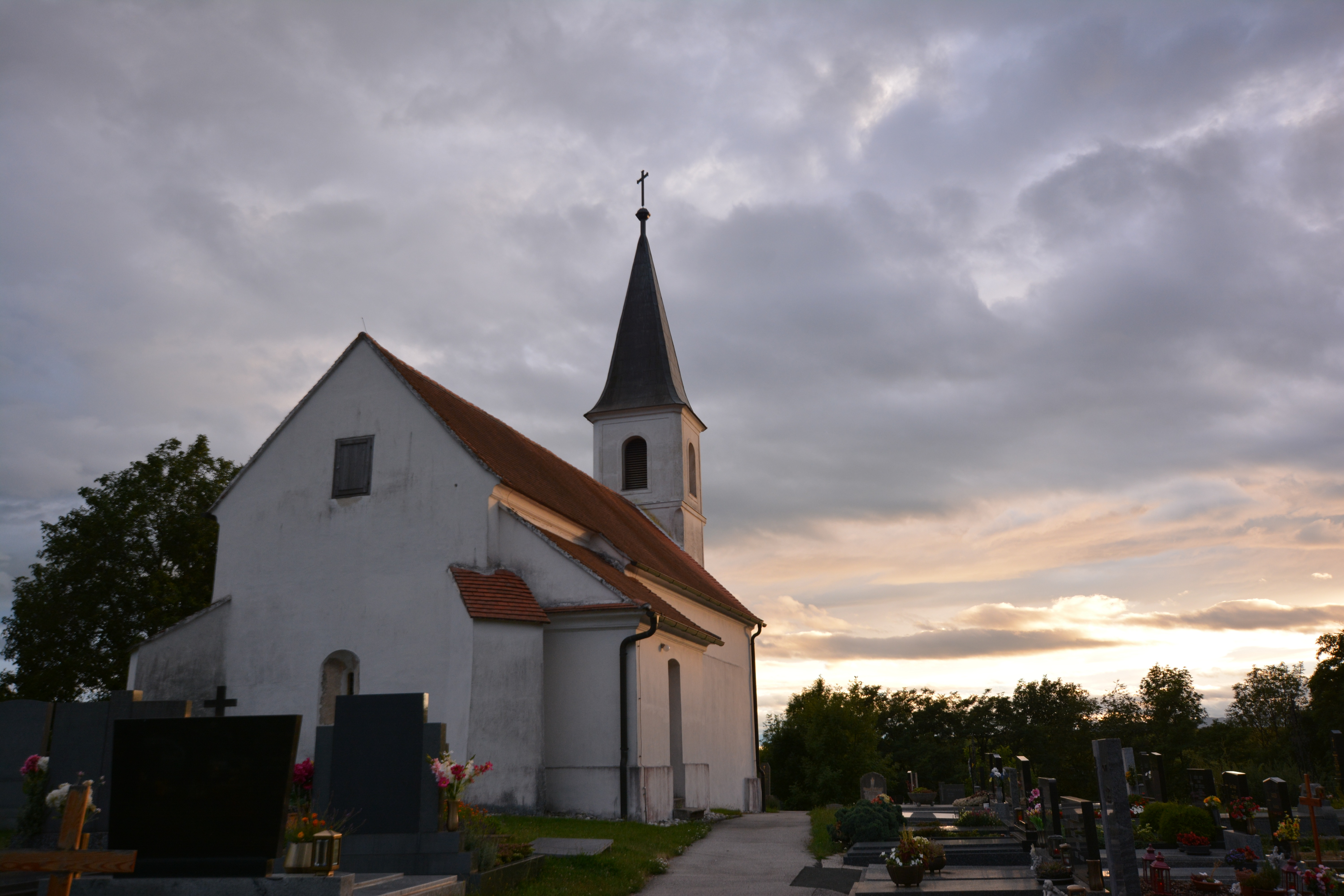 Church St. Bartholomeus in Oberschuetzen, Burgenland, Austria